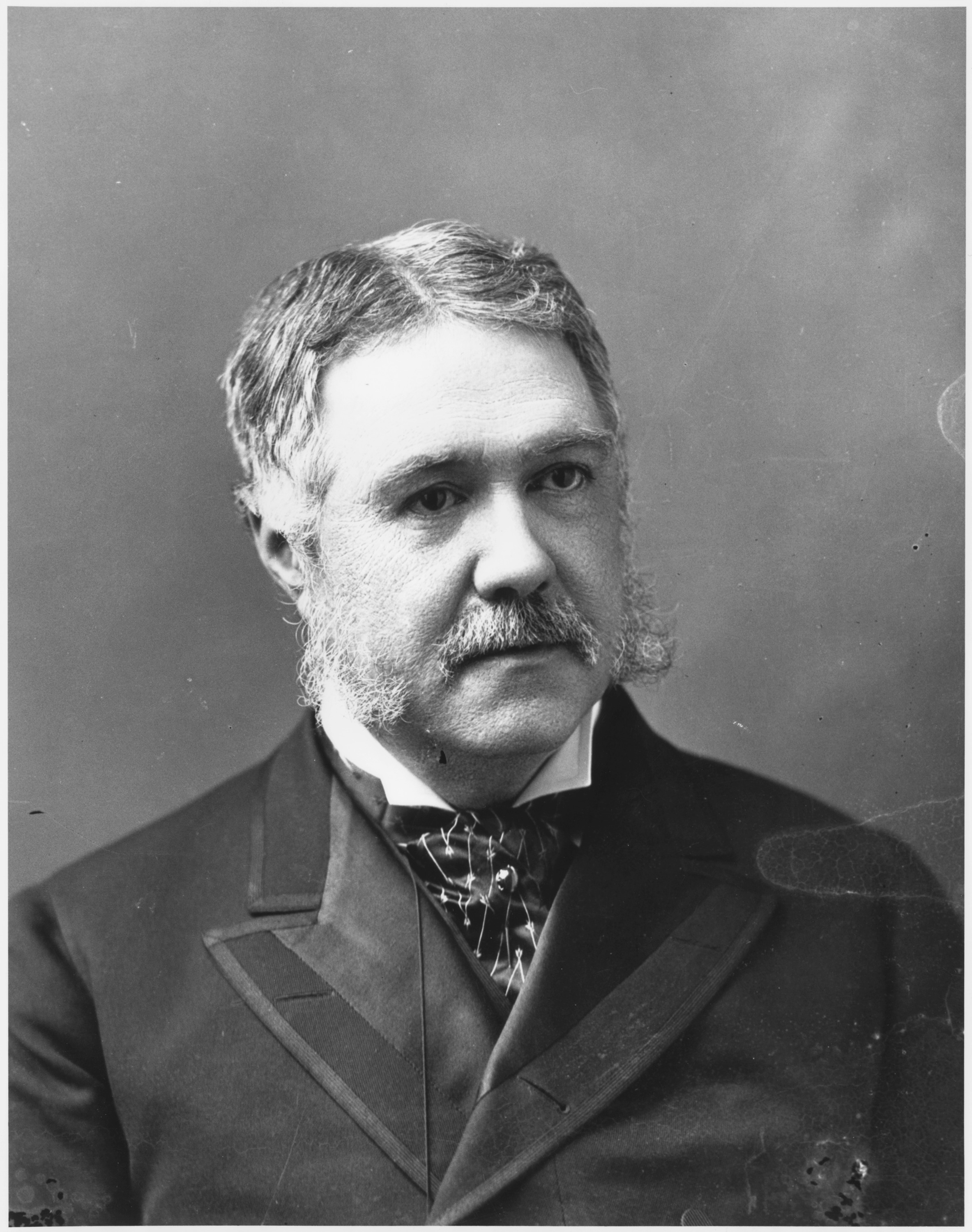 General notes: Use Presidents List Number 3 when ordering a reproduction or requesting information about this image.